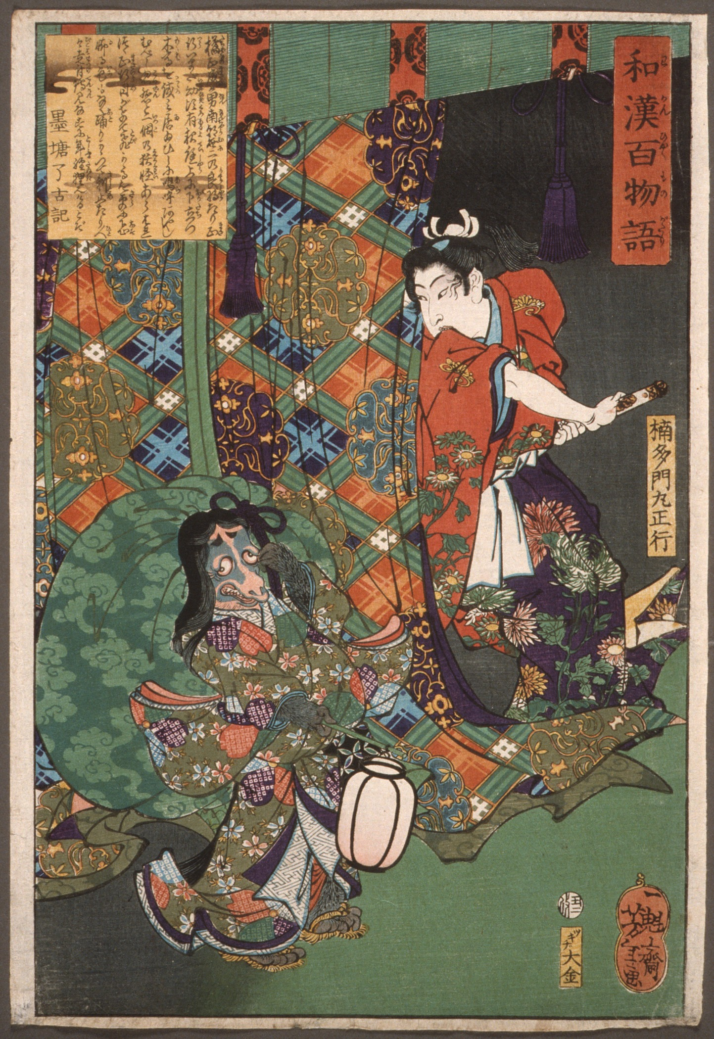 Japan, 1865, 2nd month Series: One Hundered Ghost Tales from China and Japan Prints; woodcuts Color woodblock print Herbert R. Cole Collection (M.84.31.34) Japanese Art